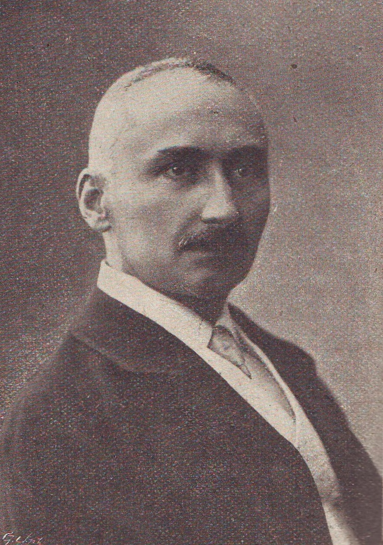 A photograph of Radivoje Vrhovac (1863-1946), philologist, writer, principal of Karlovci Gymnasium and president of Matica Srpska. Srpski (latinica): Fotografija Radivoja Vrhovca (1863-1946), filologa, književnika, direktora Karlovačke gimnazije i predsednika Matice srpske.